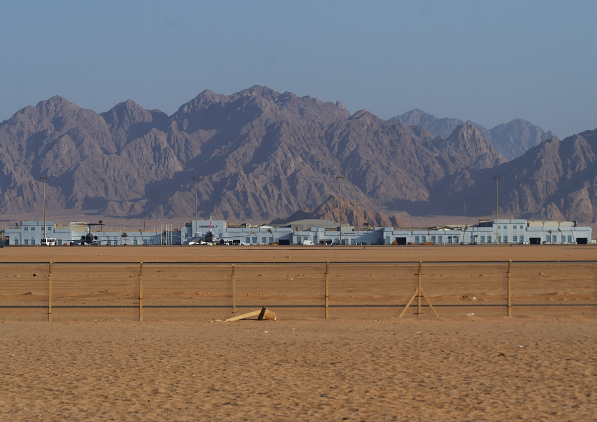 The old terminal (Terminal 2) of Sharm el-Sheikh International Airport